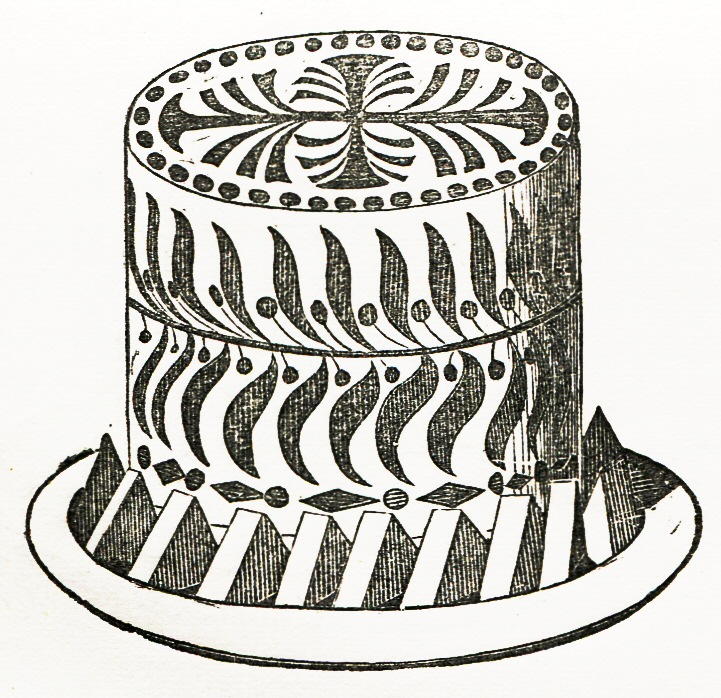 "Aspic of Fowl a la Reine". Engraving from Charles Elmé Francatelli's The Modern Cook. 28th edition, 1886